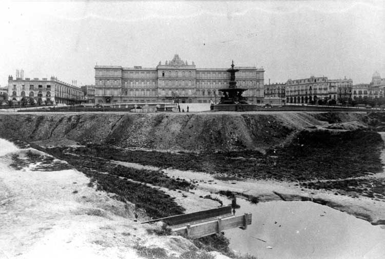 The Plaza Colón of Buenos Aires with the Fuente Monumental on the front and the Casa de Gobierno on the background. The fountain had been ordered to Fonderie d'art Val D'Osne of Paris. French artists Mathurin Moreau and Paul Liénard designed the fountain that had 12 m height and was decorated with Neptunes, naiads, children, figureheads and volutes. The fountain would be later replaced for the statue of Christopher Columbus, being moved to Costanera Sur (in the 1920s) and then to the intersection of de Mayo and 9 de Julio avenues, where it remains nowadays.